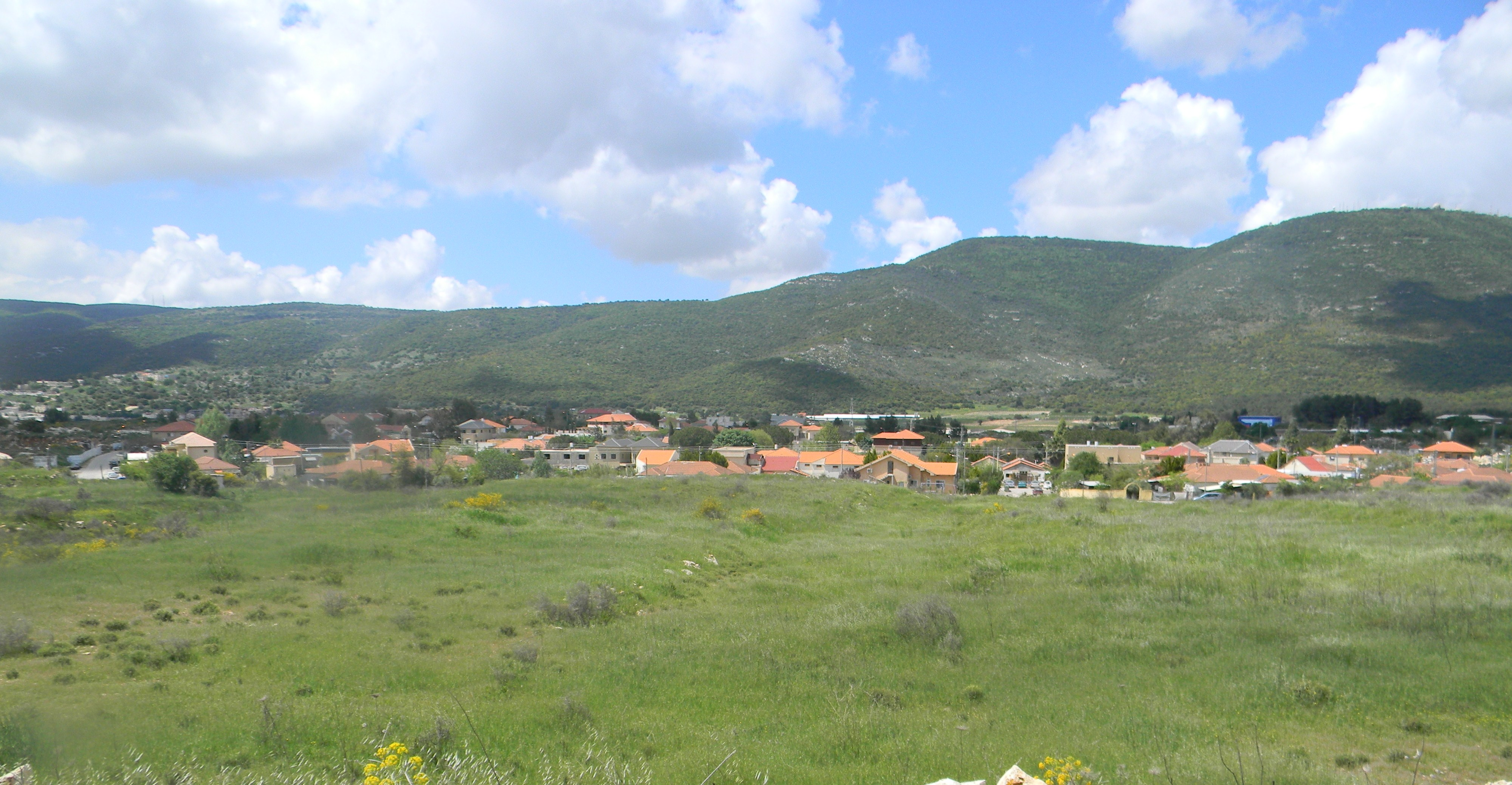 Bar Yohai is a religious Jewish communal settlement near Har Meron in northern Israel. It belongs to Merom HaGalil Regional Council.